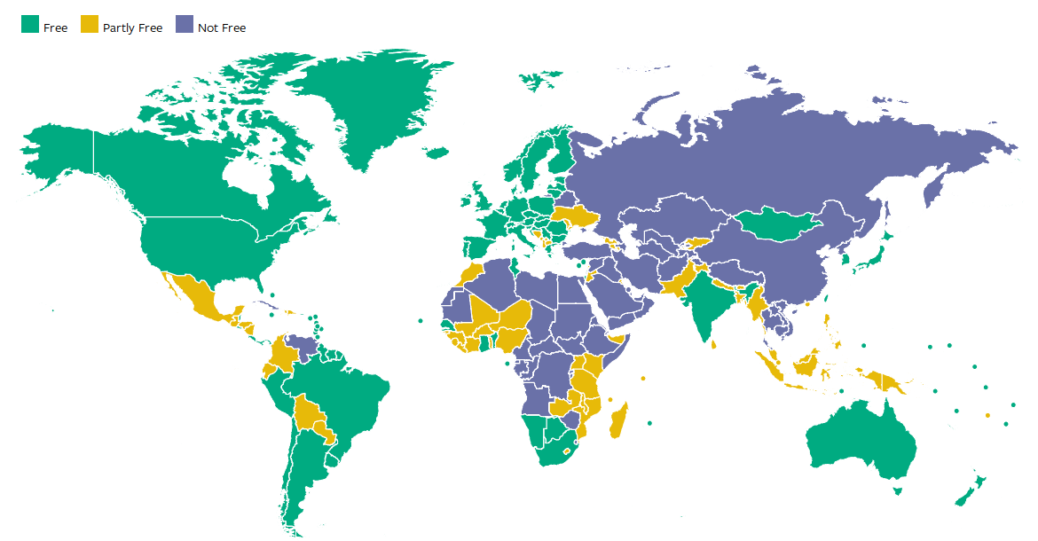 Freedom house freedom of the world 2018 map